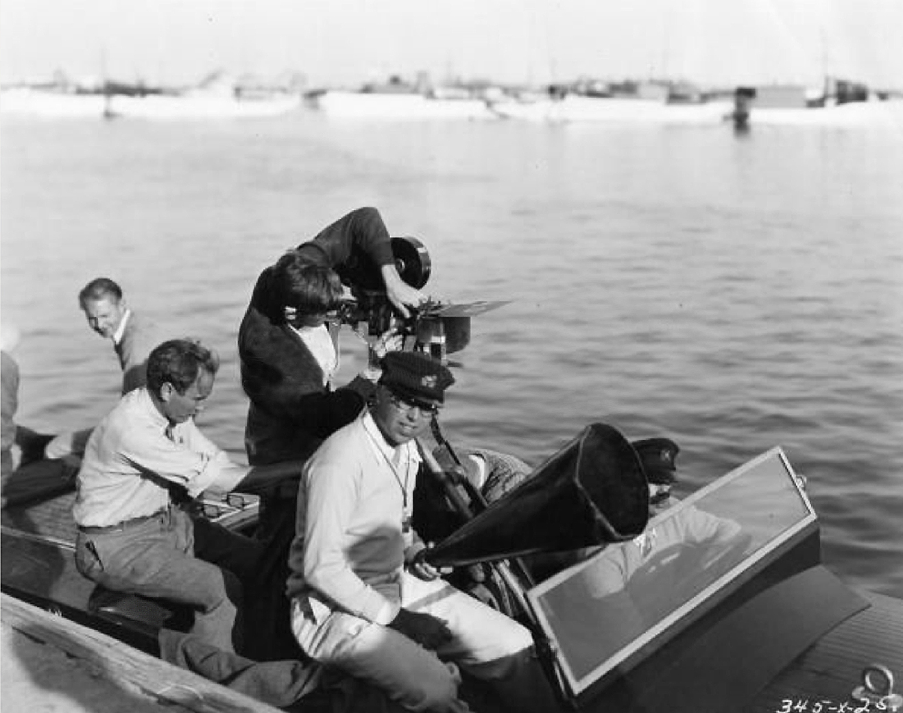 King Vidor and his cameramen set out by Hacker-Craft speedboat to film water sequences for his 1928 MGM picture, 'The Patsy'.